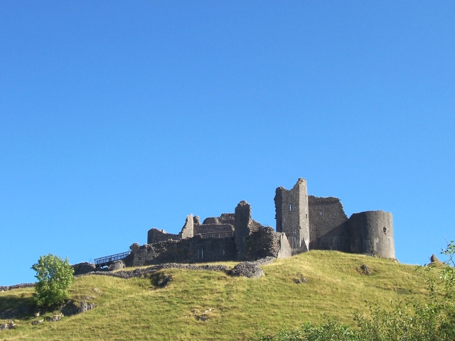 Carreg Cennen Castle. Carreg Cennen Castle dates back to at least the 13th century. There is archaeological evidence, however, that the Romans and prehistoric peoples occupied the craggy hilltop centuries earlier (a cache of Roman coins and four prehistoric skeletons have been unearthed at the site). Although the Welsh Princes of Deheubarth built the first castle at Carreg Cennen, what remains today dates to King Edward I's momentous period of castle-building in Wales.